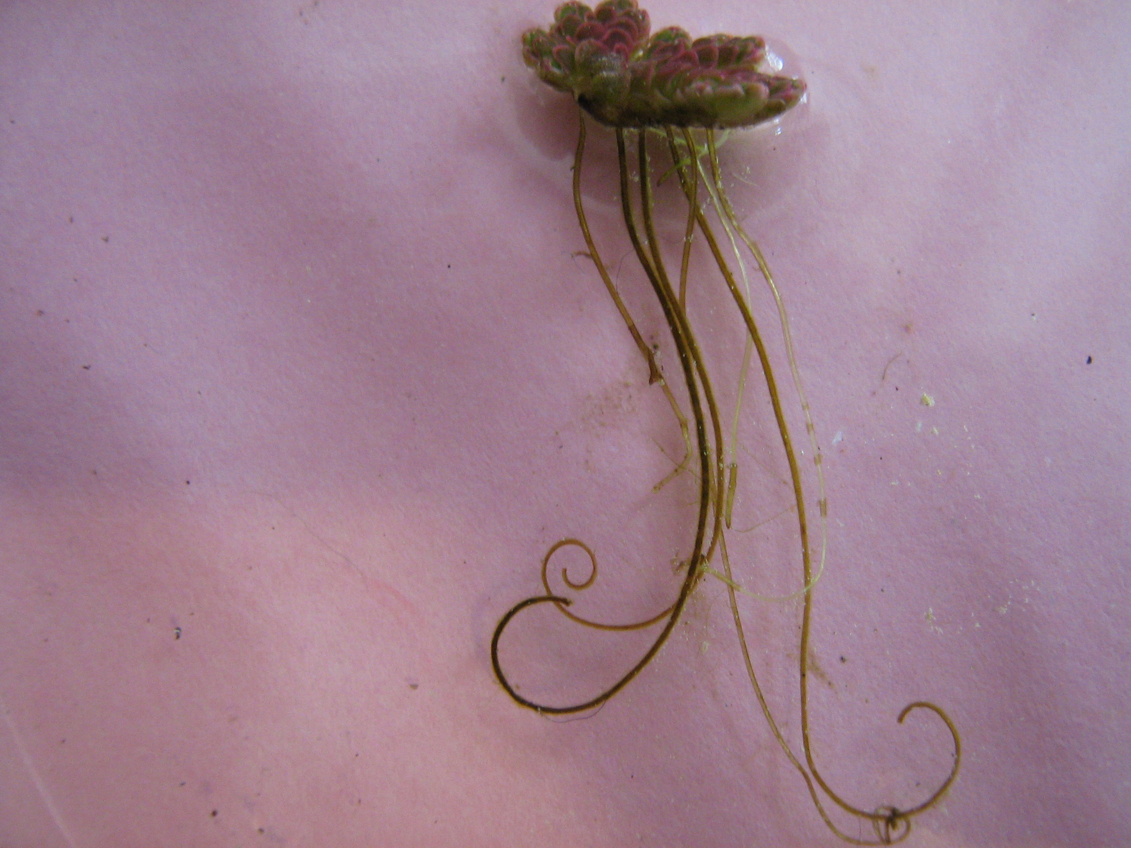 Azolla filiculoides (Water Fern) is a species of Azolla, native to warm temperate and tropical regions of the Americas as well as most of the old world including Asia and Australia